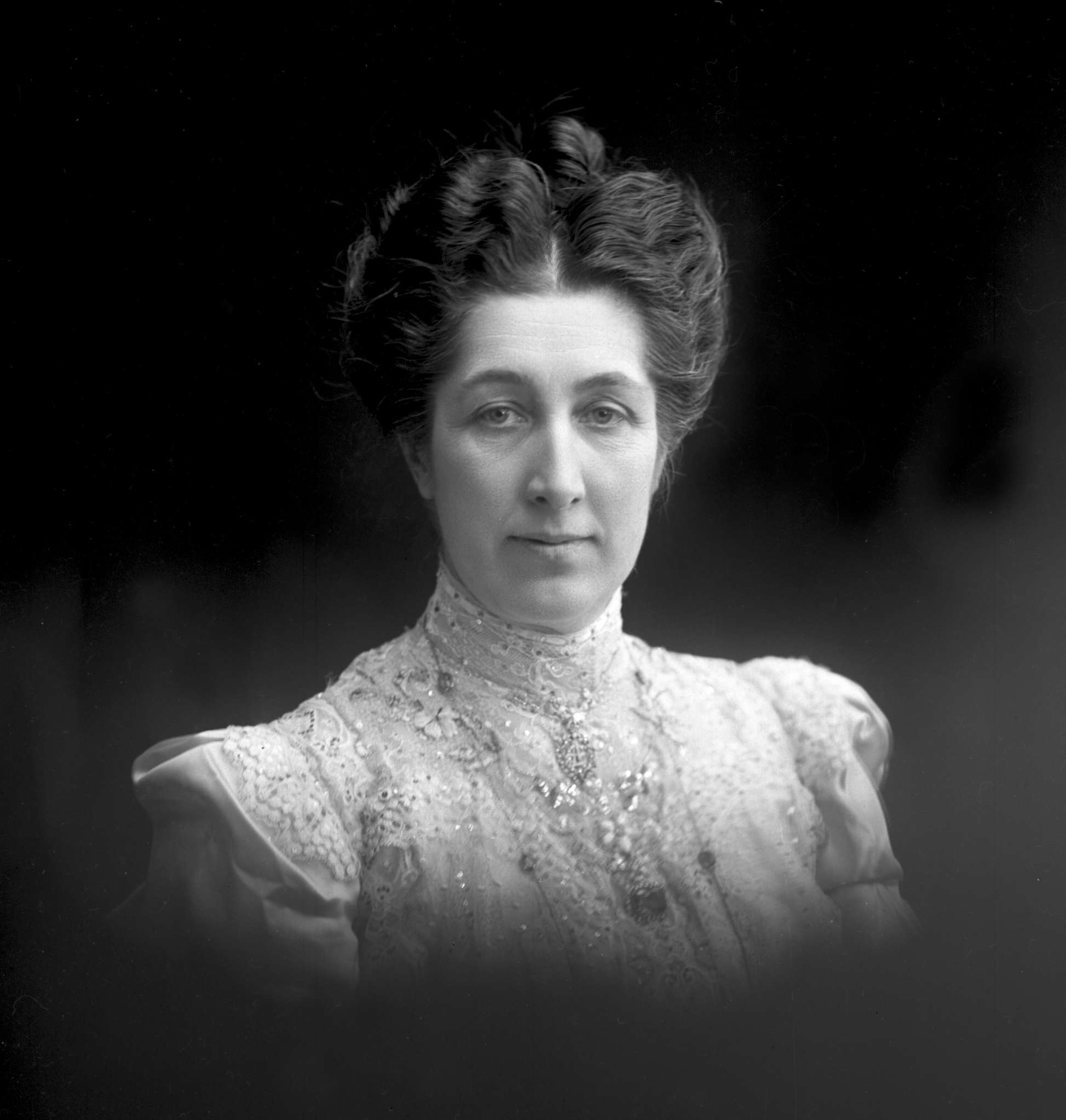 Depicted person: Marie Magdalena Rustad